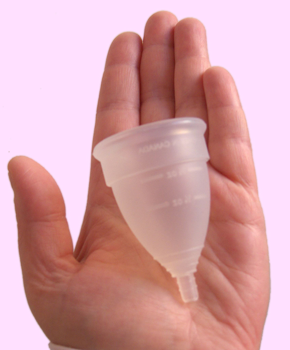 Diva Cup, Menstrual cup